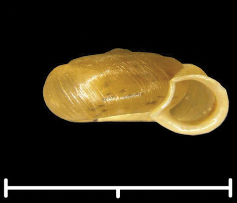 Photo of apertural view of a shell of Gudeodiscus messageri raheemi. Scale bar is 20 mm. Locality: 11L06, Laos, Luang Prabang Province, ca. 18 km SE of Muang Xiang Ngeun, on the left side of Nam Khan, limestone, black soil in limestone pockets, clay, under rocks and logs in old forest, 455 m a.s.l., 19°40.931'N, 102°19.743'E, leg. A. Abdou & I.V. Muratov, 30.10.2006, MNHN 2012-27054/38 shells (some of them are broken/juvenile) + anatomically examined specimen.